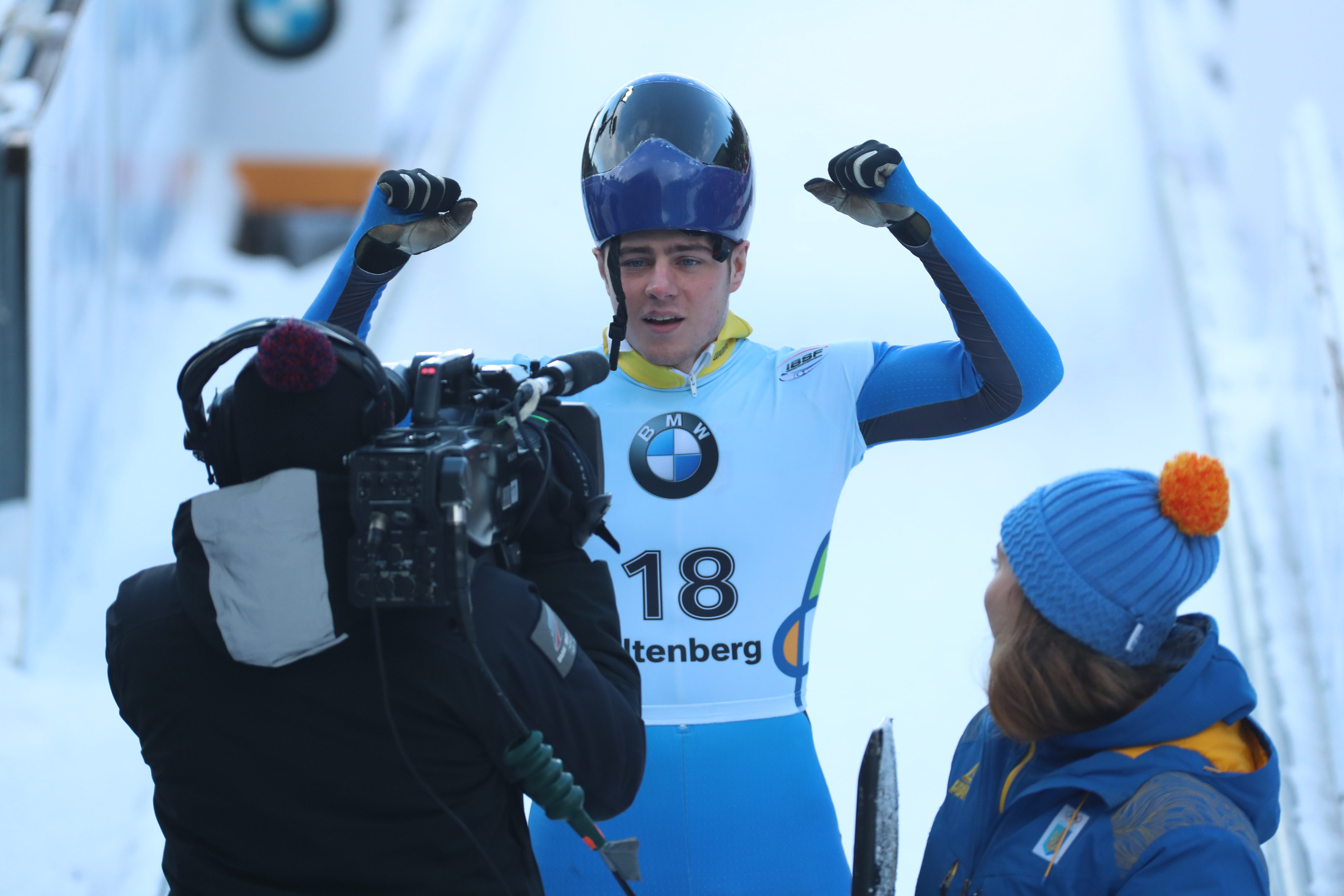 4th run at the Men's Skeleton at the Bobsleigh and Skeleton World Championships 2020 in Altenberg